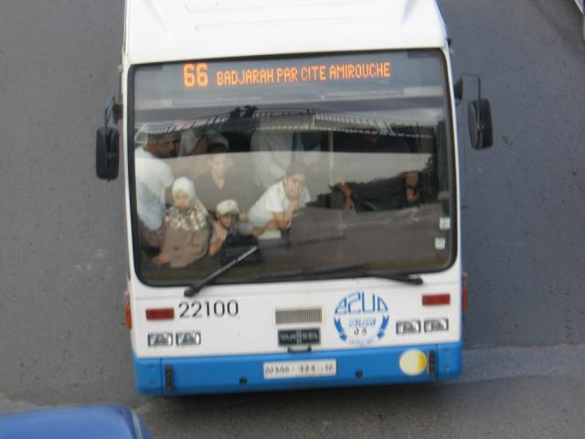 A bus on line 66 of the public transit "ETUSA" in Algiers, the capital of Algeria.